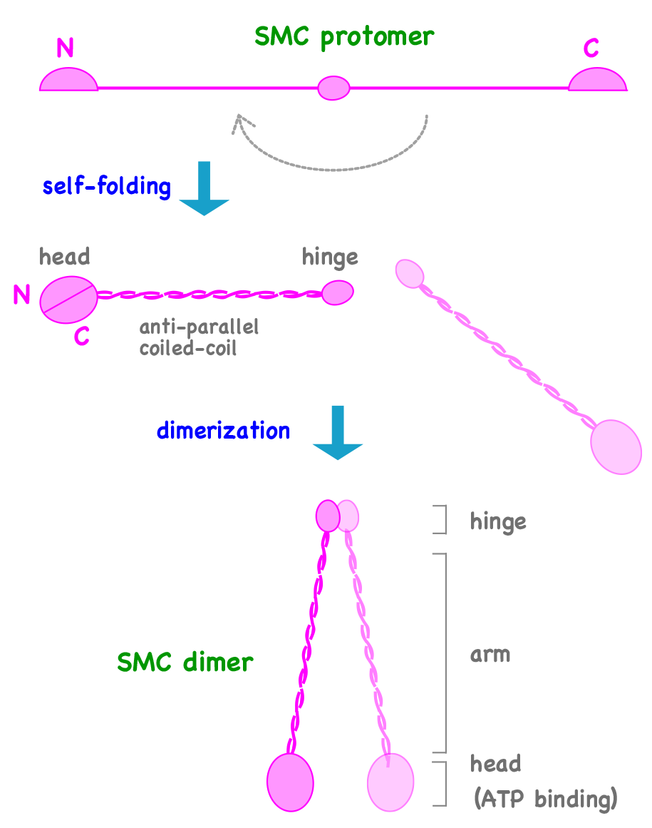 Structure of SMC dimer